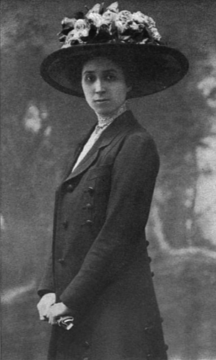 Laura Cornelius Kellogg Other information No.